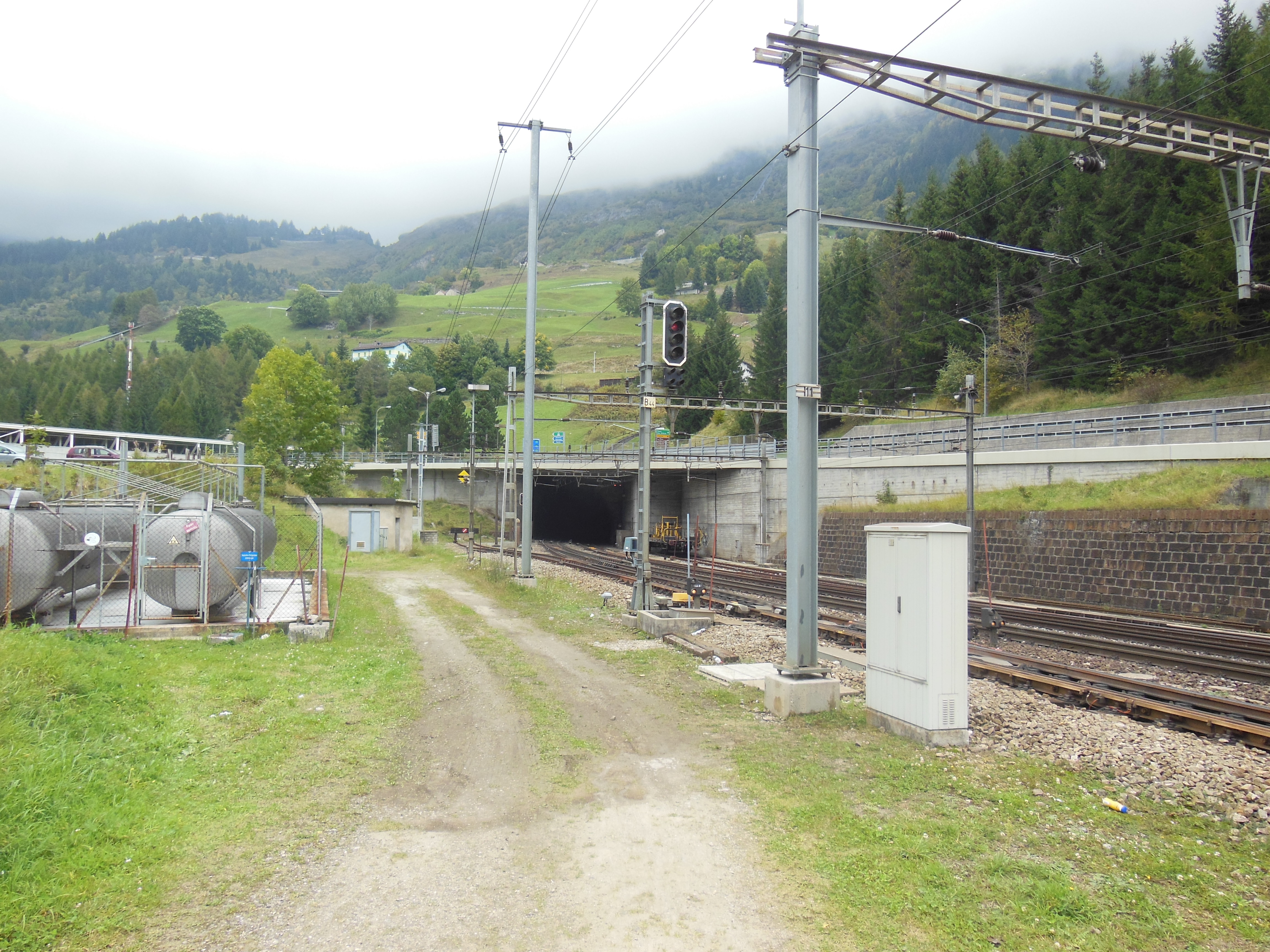 Entrance to the Gotthard Tunnel at Airolo railway station on the Gotthard railway in the Swiss canton of Ticino. For more information, see the wikipedia articles Airolo railway station and Gotthard Tunnel.